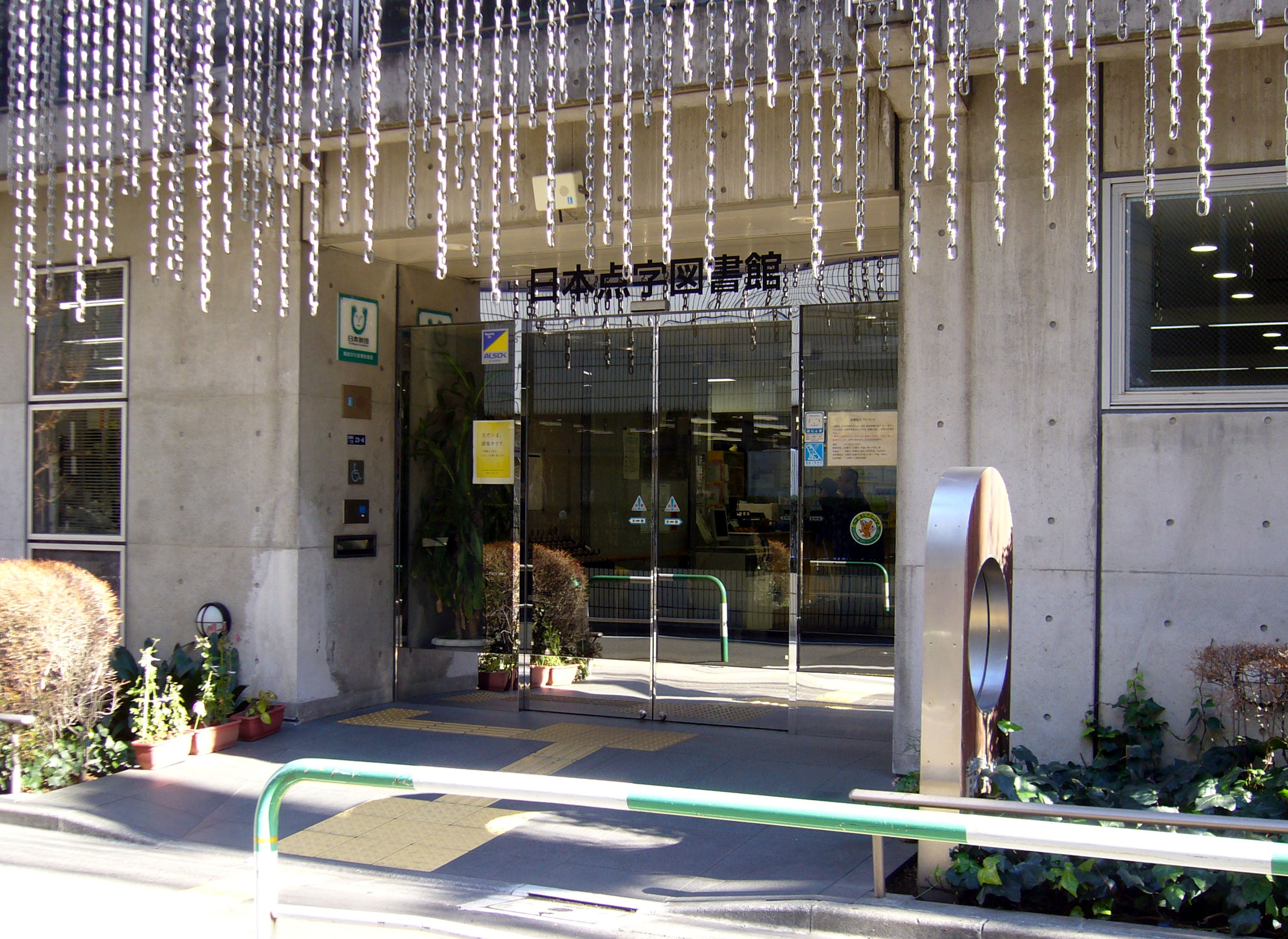 Japan Braille Library entrance